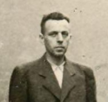 POW photograph of Karl Rahm